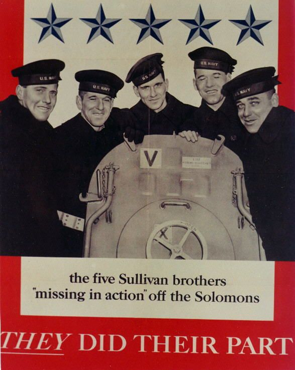 Five Sullivan-Brothers on a Office of War Information poster